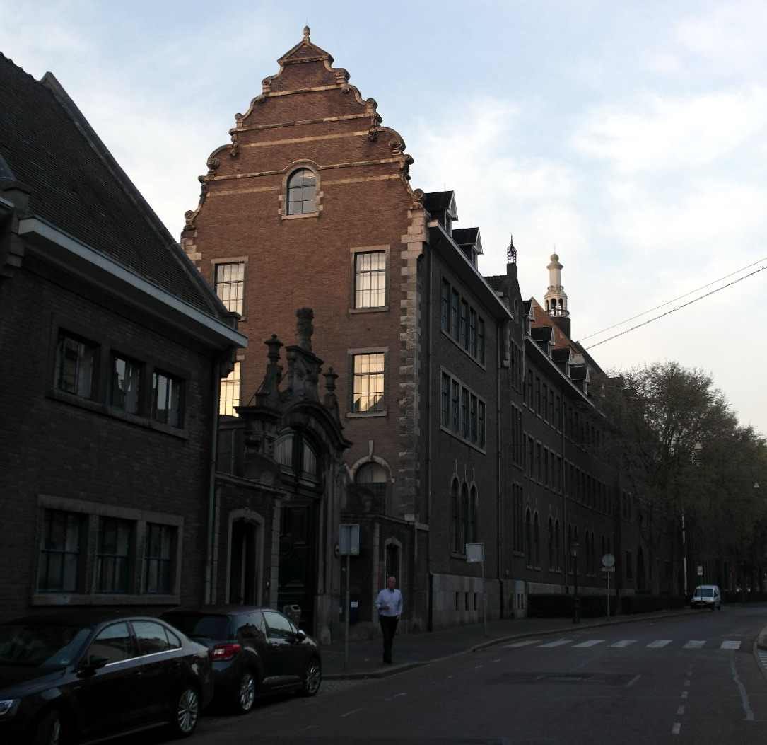 Maastricht, the Netherlands. View of former Jesuit monastery at Tongersestraat, now School of Business and Economics of the University of Maastricht.